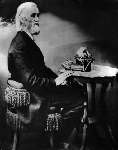 Christopher Sholes sits before his invention, the typewriter.